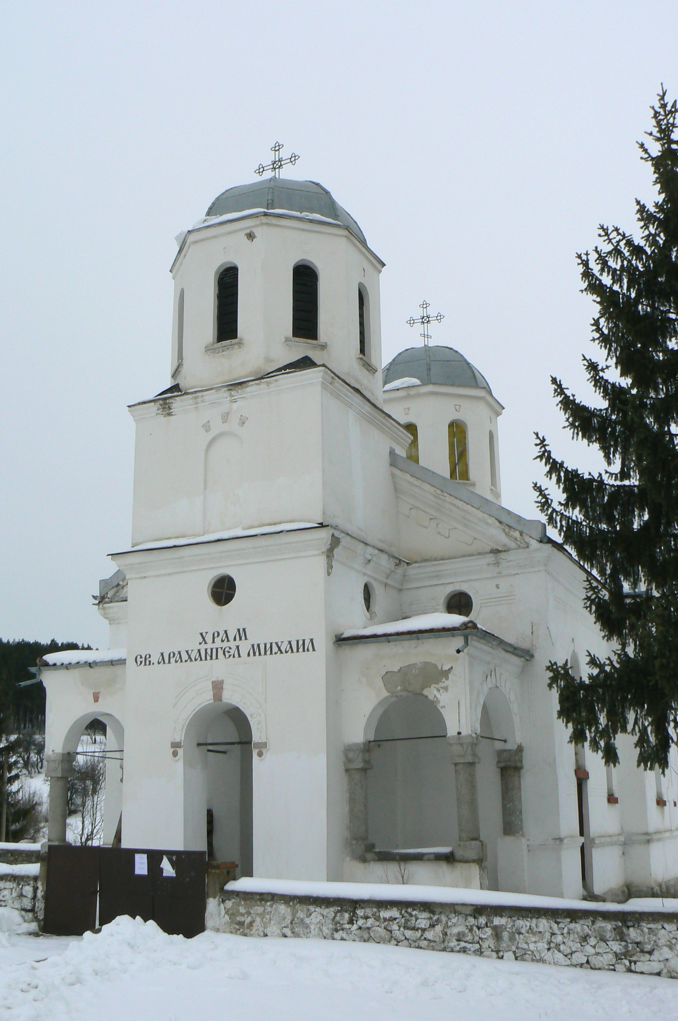 Church "St. Archangel Michael" in village Relyovo, Bulgaria